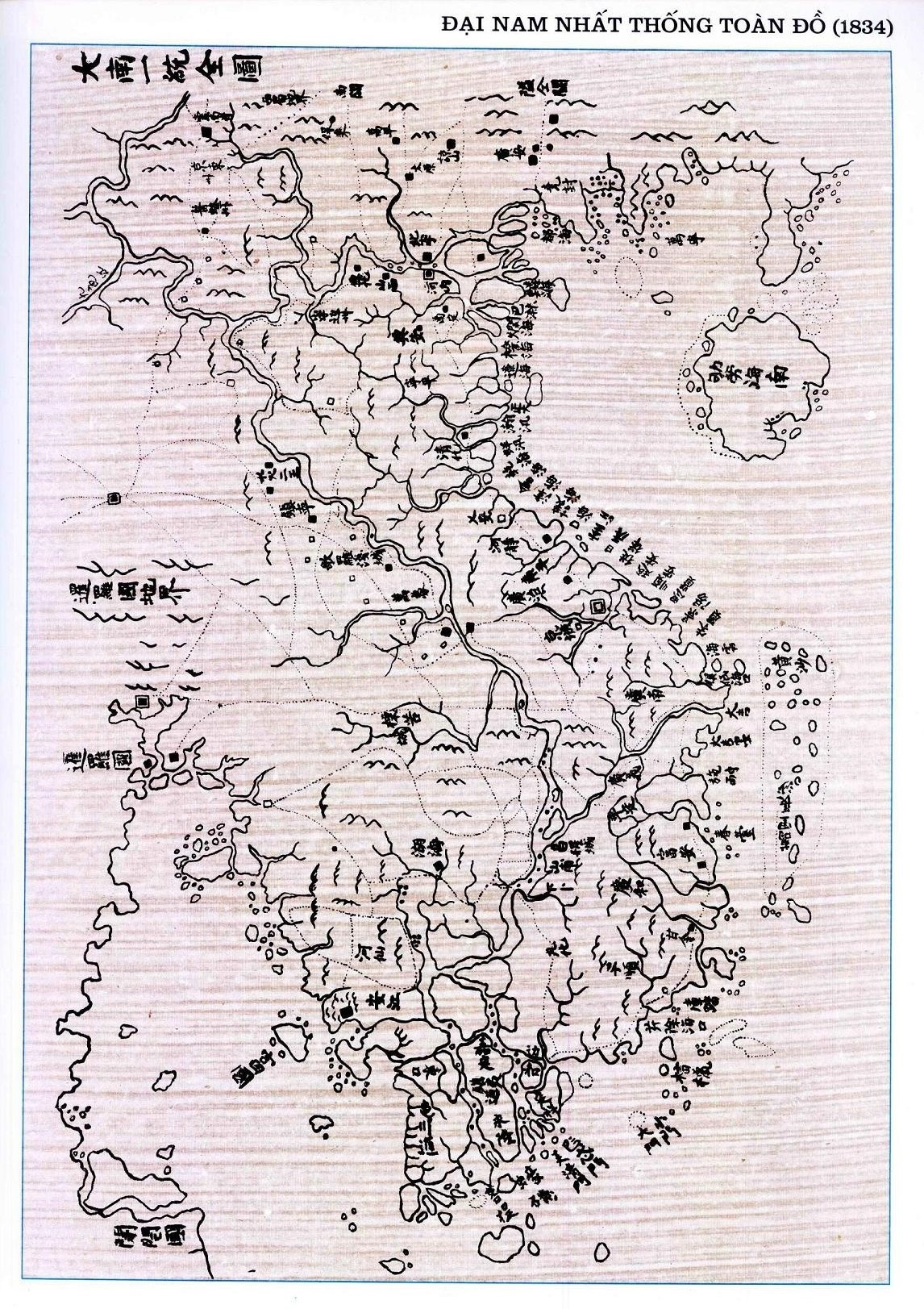 Vietnamese map showing the Spratly and Paracel Islands in the 19th century. Background: between 1834 and 1838, at the time of Emperor Minh Mang, Phan Huy Chú published the Đại Nam Thống Nhất Toàn Đồ (the Unified Đại Nam Complete Map) that distinctly delineated Vạn Lý Trường Sa, the present-day Spratly Islands, from Hoàng Sa, the present-day Paracel archipelago. Vạn Lý Trường Sa:Ten-thousand-league Long Sandbank. Hoàng Sa: Golden Sandbank.